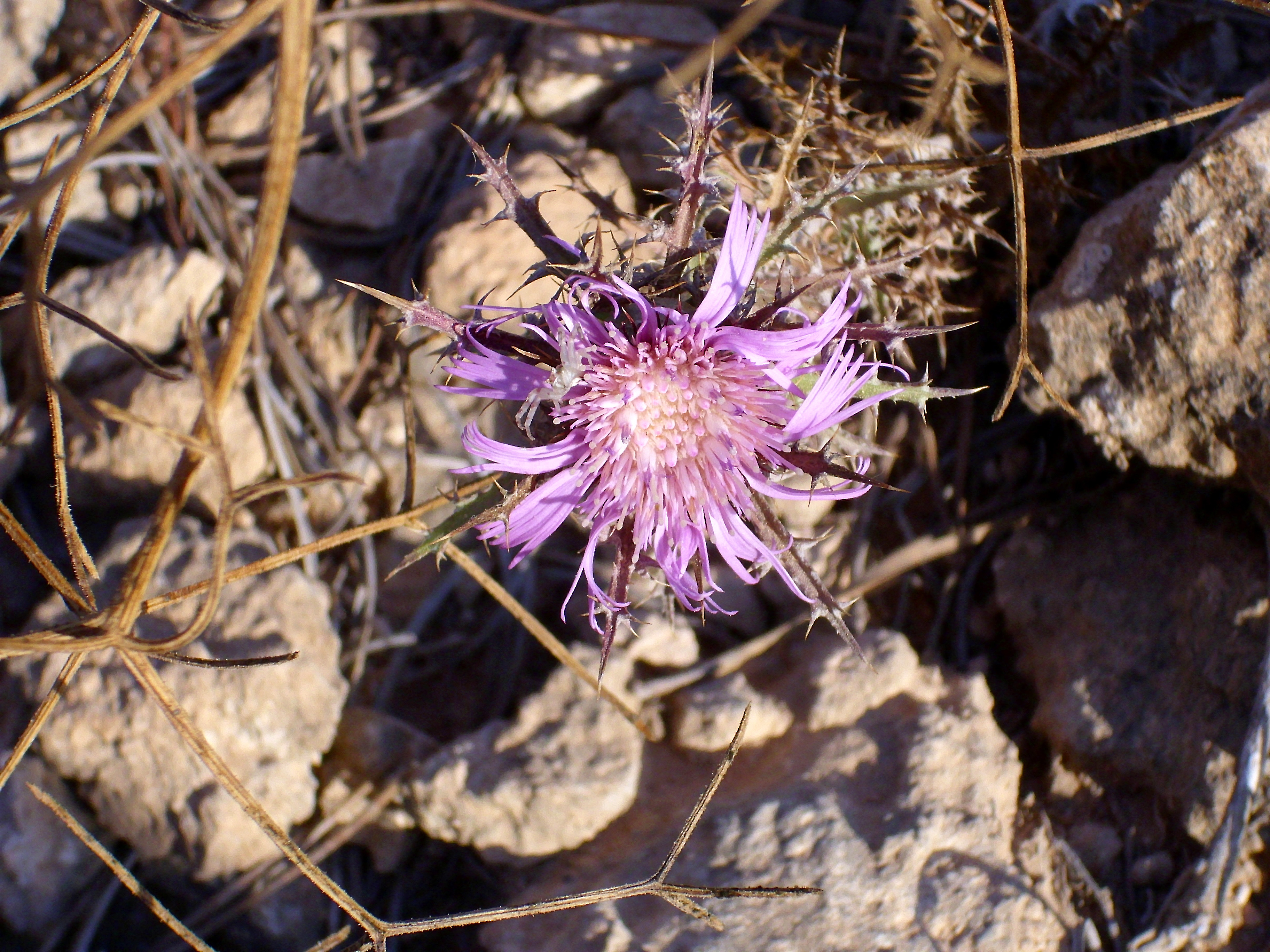 Atractylis humilis inflorescence close up, La Mata, Torrevieja, Alicante, Spain